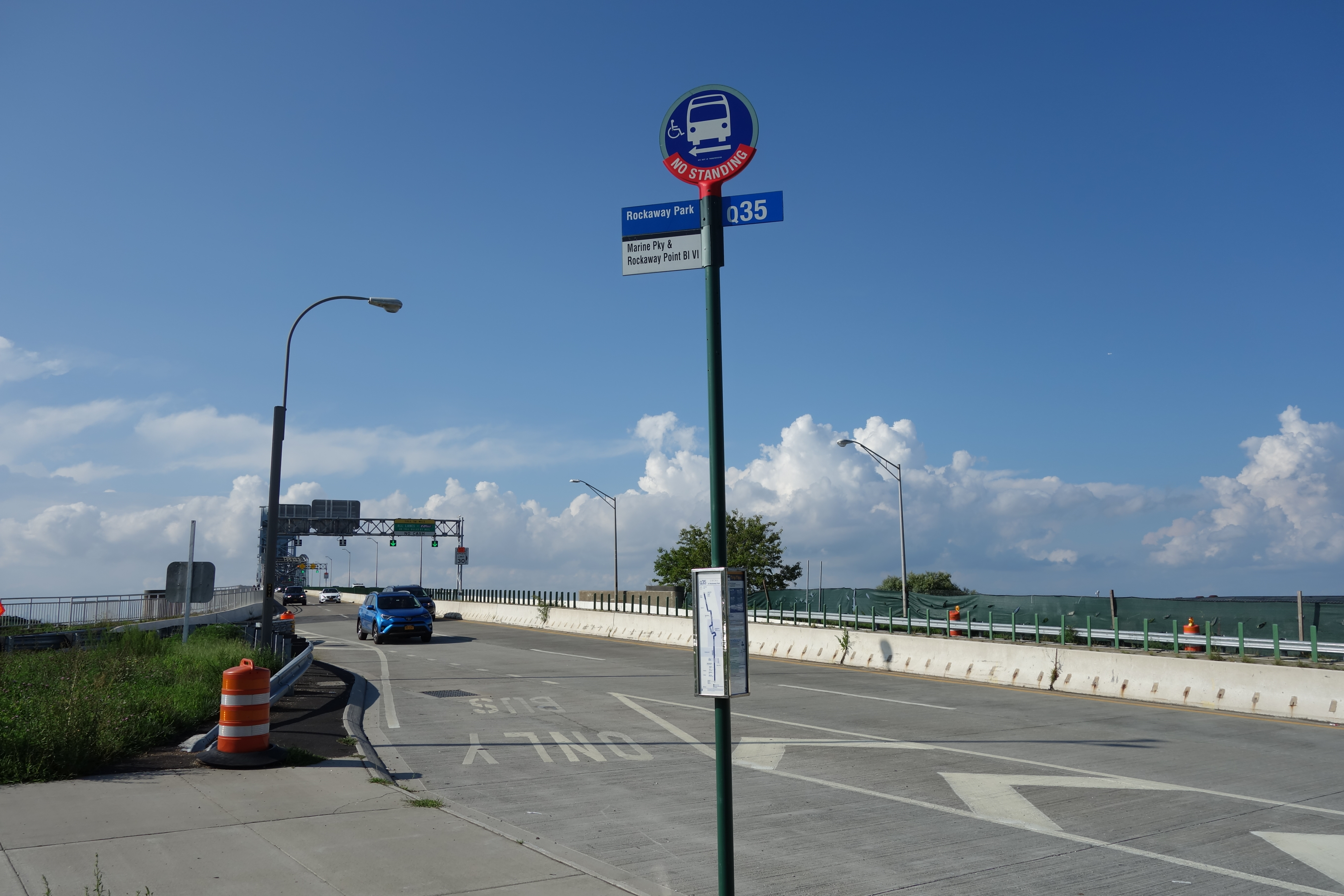 The bus stop for Rockaway Park-bound Q35 buses at the Queens base of the Marine Parkway Bridge, near Rockaway Point Boulevard east of Beach 169th Street in Roxbury, Queens. This stop, which serves Roxbury, Breezy Point, Riis Park, and Fort Tilden, is for obvious reasons considered dangerous. But it provides a cool view of the bridge, don't it?